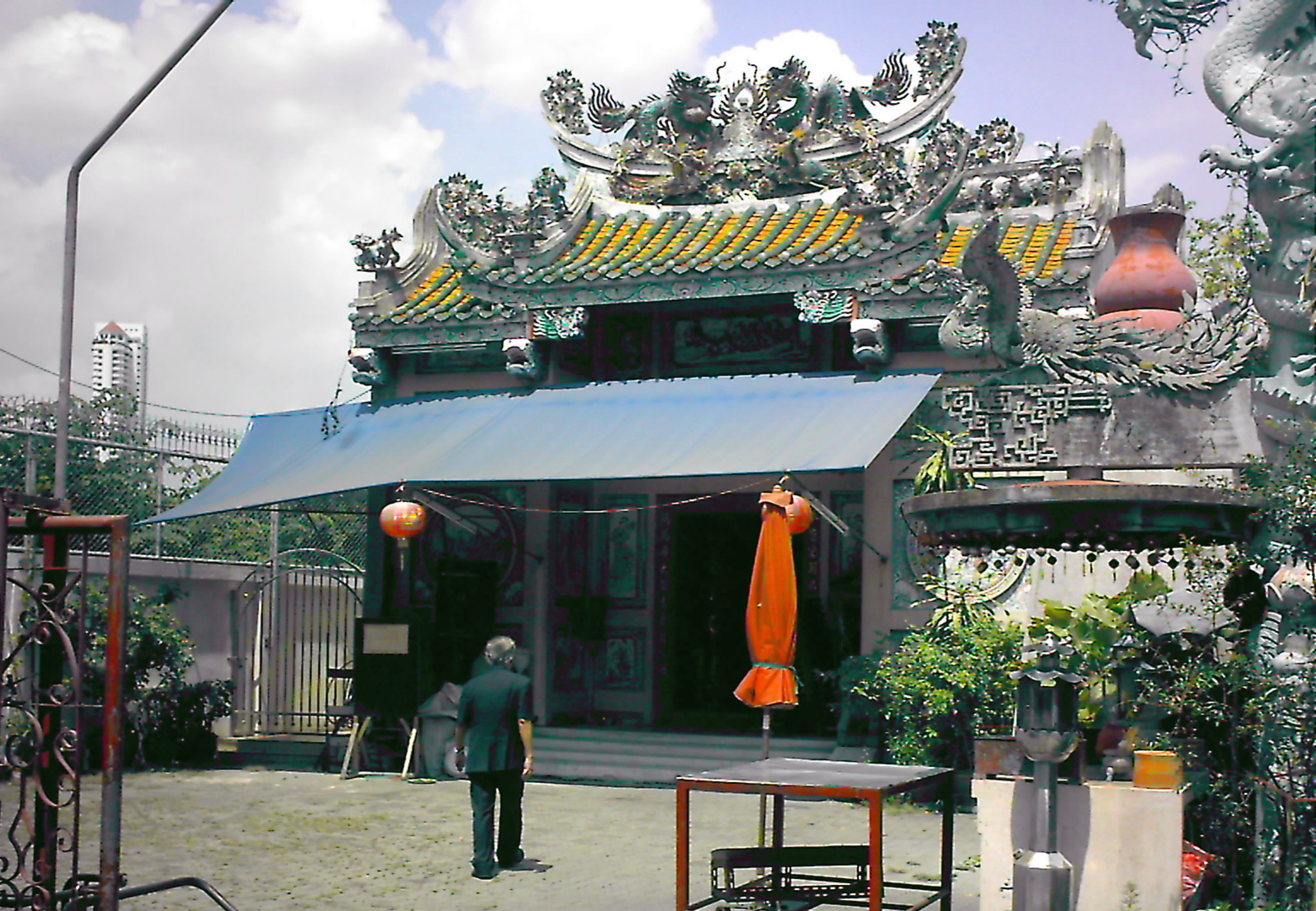 Main Hall of Chinese Earth Godess at 1614/1 Charoen Krung Road, Bang Rak, Bangkok, Thailand 中文（香港）: 泰國，曼谷，挽叻縣，石龍軍路 1614/1號，本頭媽廟(谷雞媽)，大殿